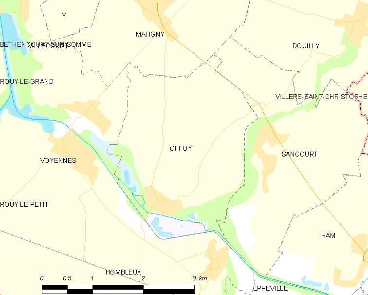 Map of French municipality Offoy